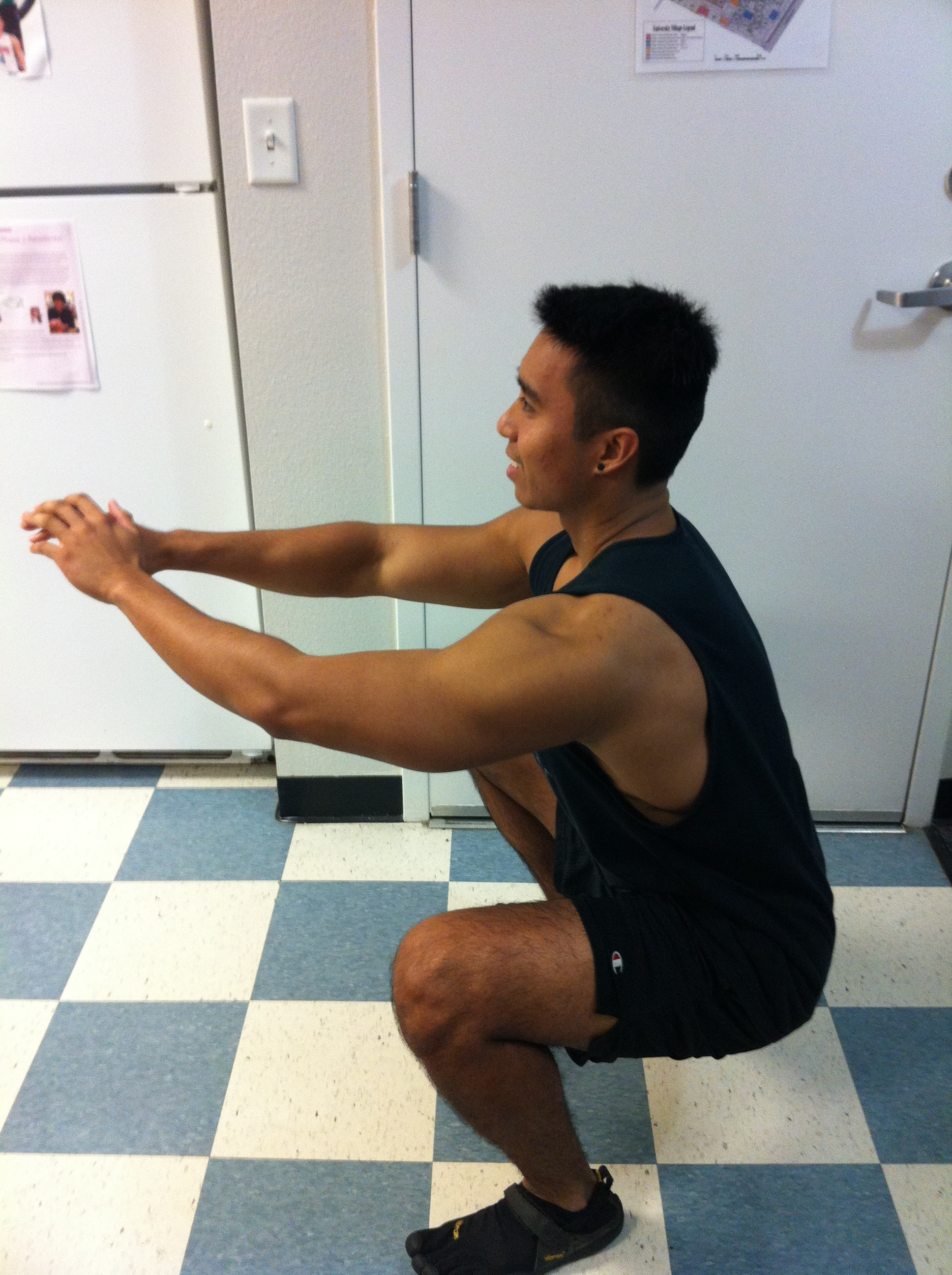 Proper parallel squat form to improve knee stability.